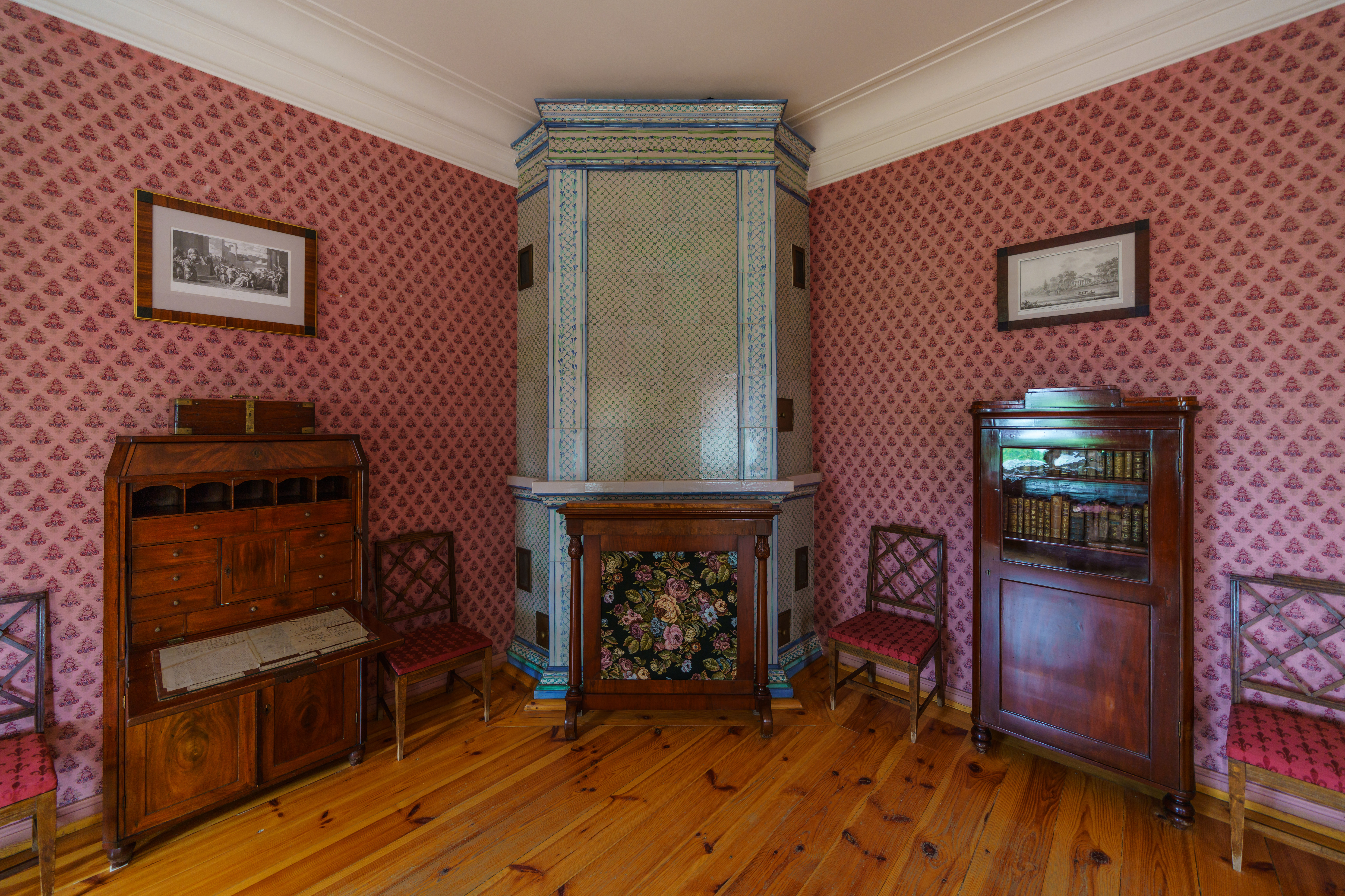 Main house in Mikhailovskoe Estate in Pushkinskiye Gory, Pskov Oblast, Russia.